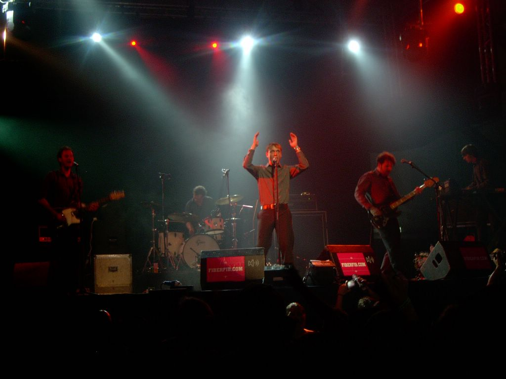 The Robocop Kraus live at Festival Internacional de Benicàssim 2005